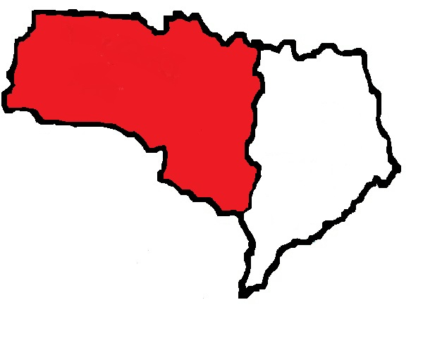 Shijonawate Shijonawatecity Osakapref area